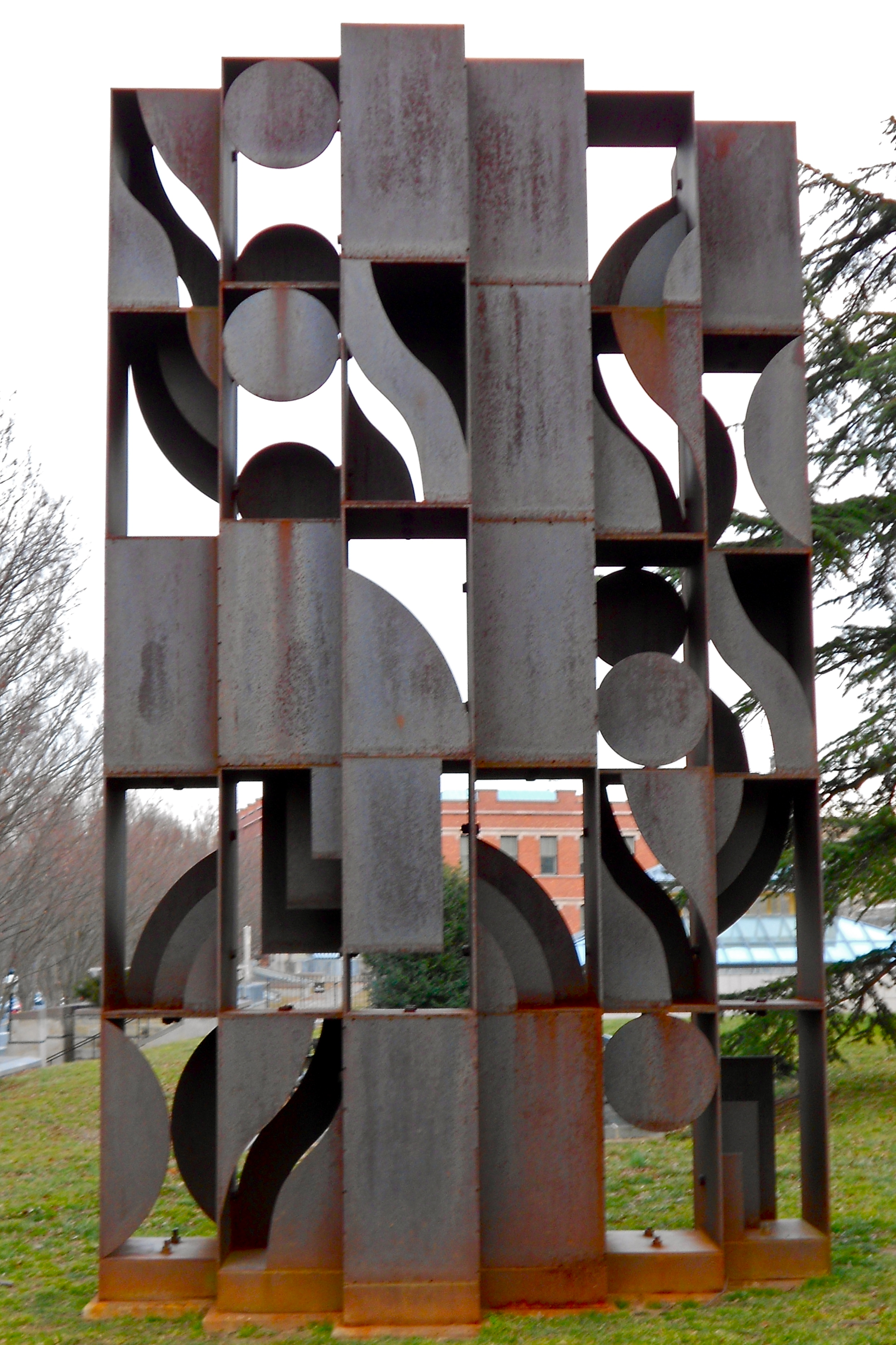 Photo of "Atmosphere and Environment X" by Louise Nevelson. Located in Princeton, New Jersey on Nassau Street, on Princeton University Campus. This is the view looking to the west. The on site plaque states "Louise Nevelson 1900-1988 Atmosphere and Environment X, 1969 The John B. Putnam Jr. '45 Memorial Collection" No visible copyright notice, so the sculpture is in the public domain.